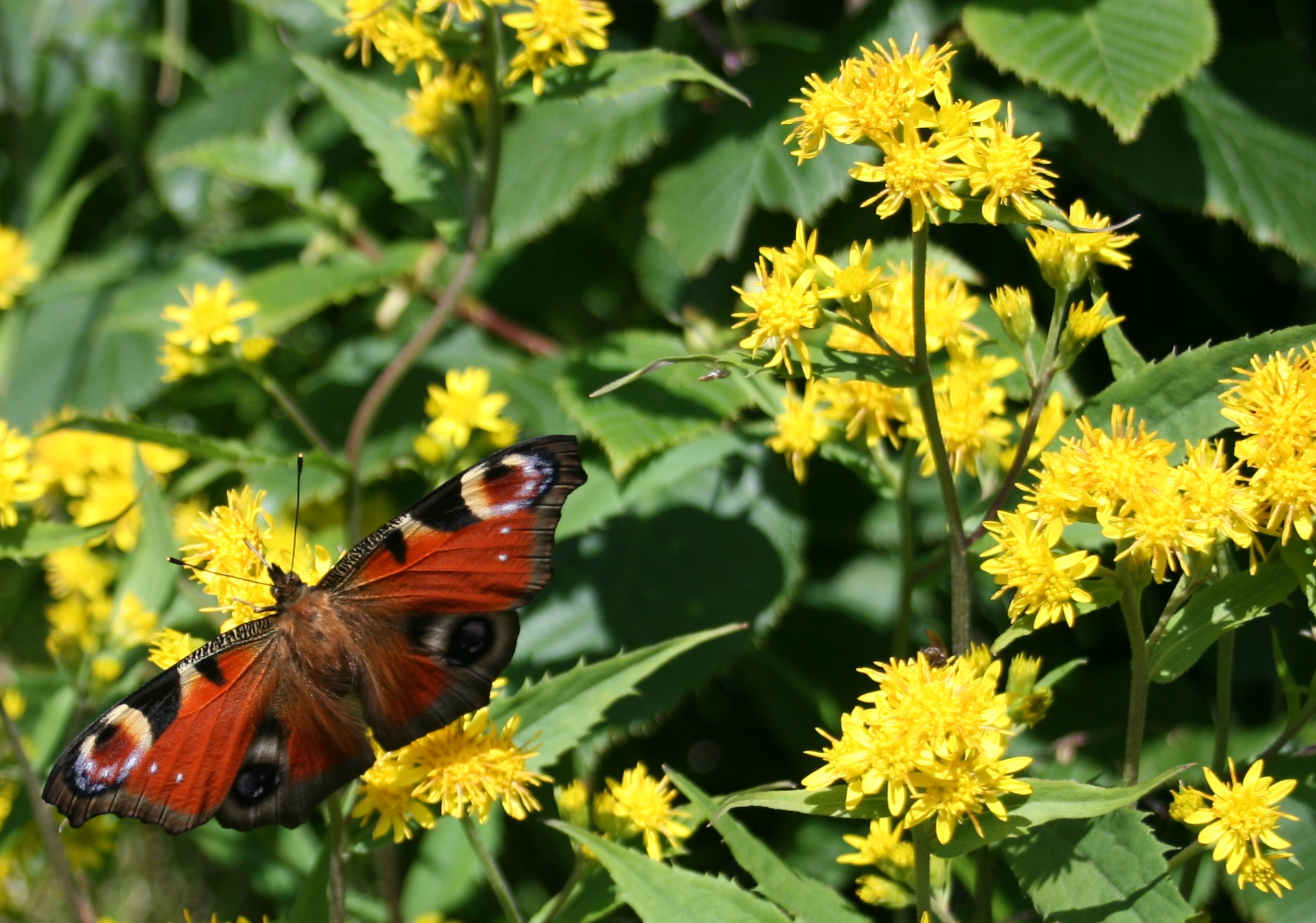 Solidago virgaurea and Inachis io in Mount Ontake, Japan.